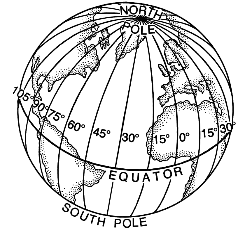 Line art drawing of Earth with Longitudes.